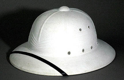 Harry S. Truman's pith helmet, made for him by Hawley Products Company in St. Charles, Illinois, USA. It (dimensions: 35.5 x 29.5 x 16.0 cm) is made from plastic, cotton, and leather. This photo is recorded as HSTR 22230, and was made for the Harry S Truman, an American Visionary Exhibit.